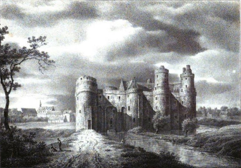 Vilvoorde castle (printed in Guillaume Philidor Van den Burggraaf, Collection des anciennes portes de Bruxelles, 1823)